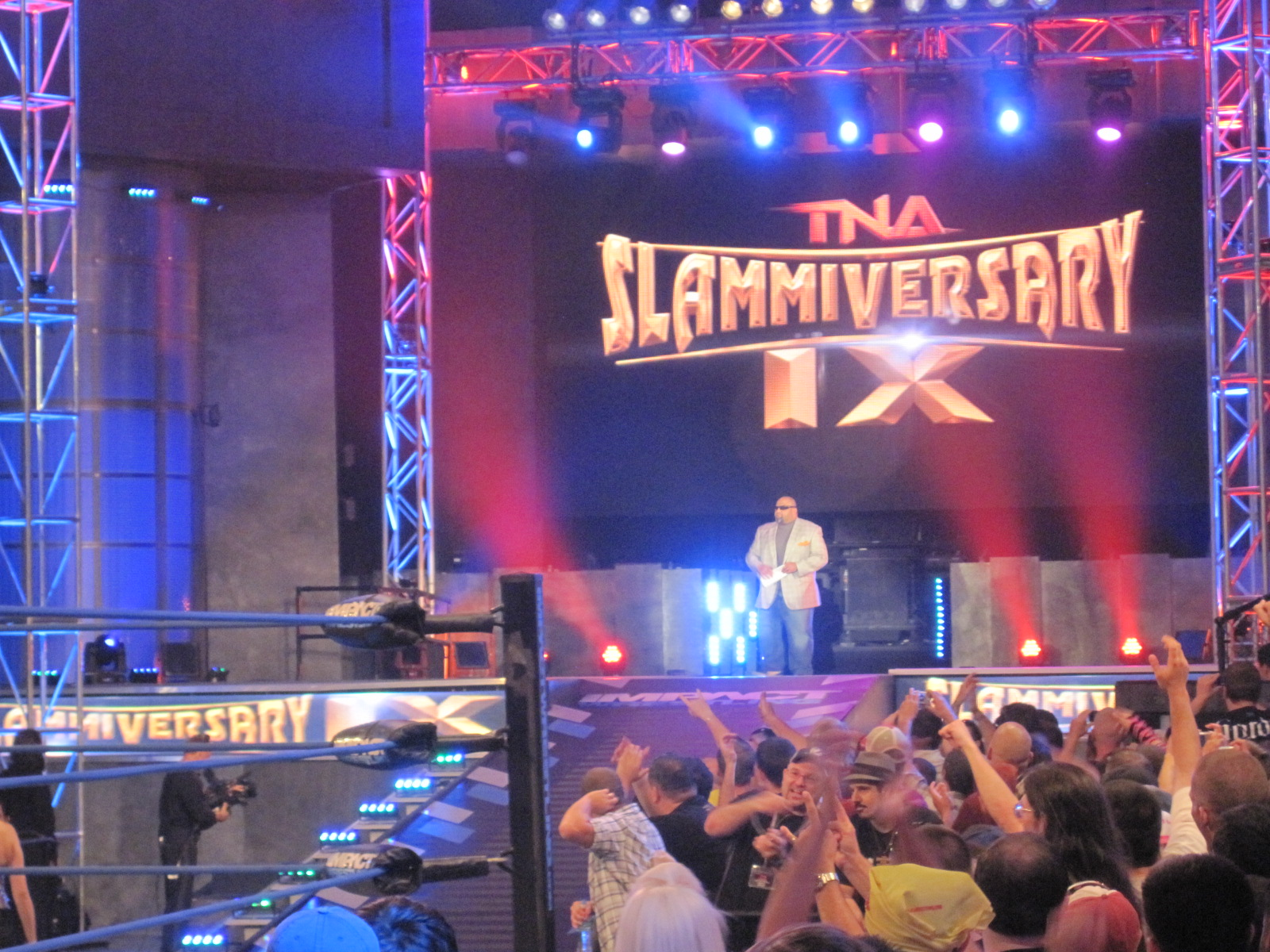 Sunday, June 12, 2011. Universal Orlando